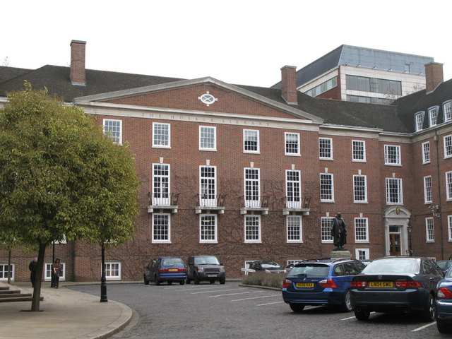 South Square, Gray's Inn, WC1 Shows the location of 1266685 - he is actually on a plinth and not standing on top of the blue car.